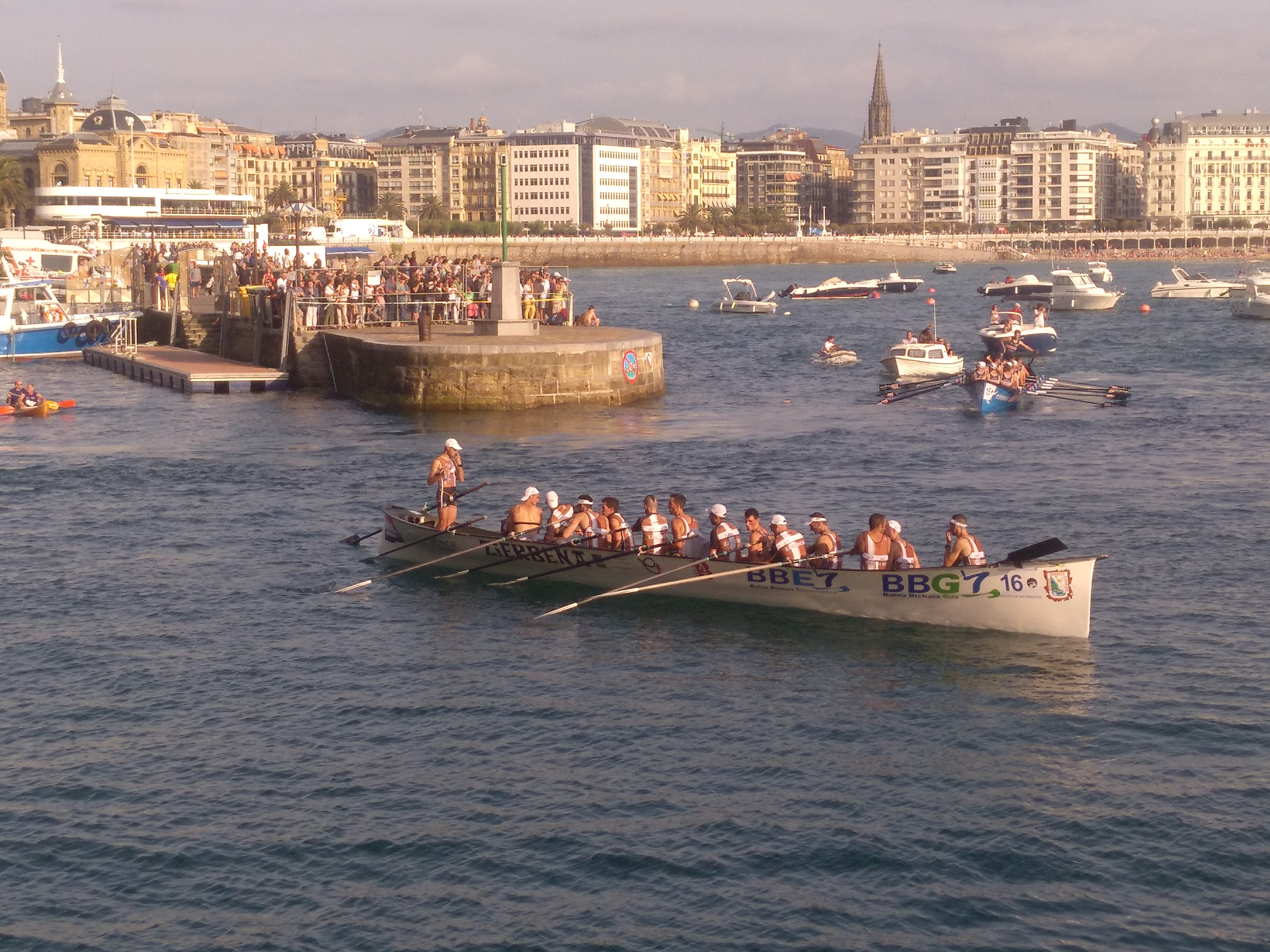 Zierbena Arraun Elkartea, Flag of La Concha, 2018